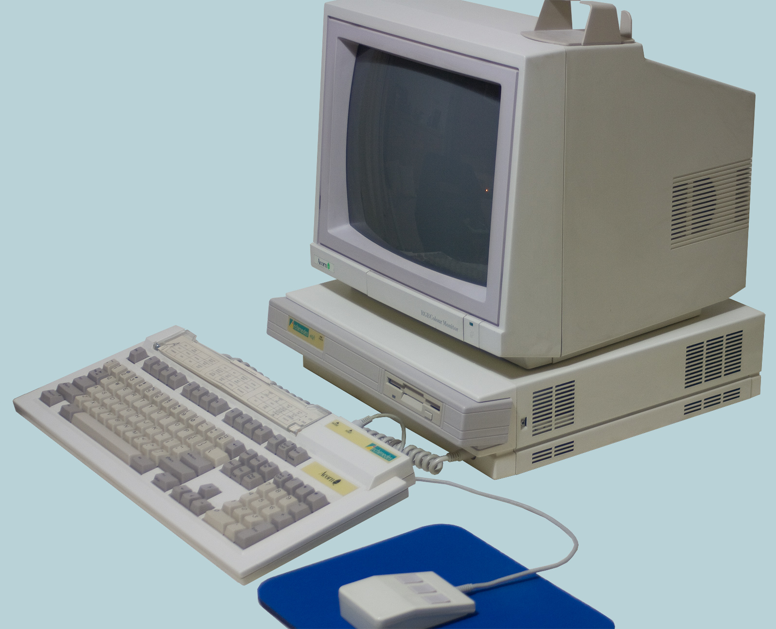 A photo of the Acorn Archimedes machine with the original monitor and mouse. This particular Archimedes is the A410/1.